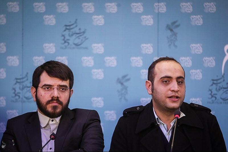 Media conference of Invitation at 35th Fajr International Film Festival